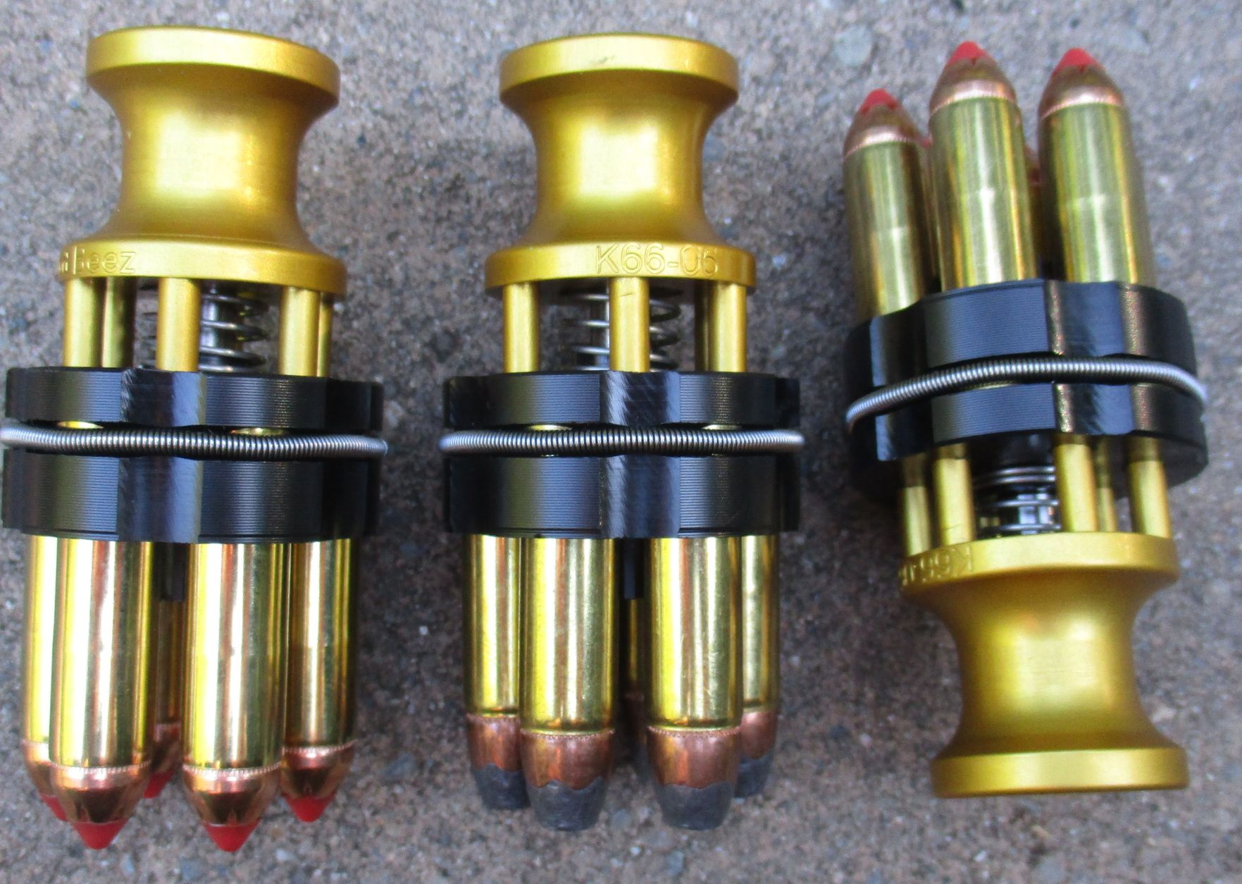 Speed Beez Speed Loaders, .357 Mag.